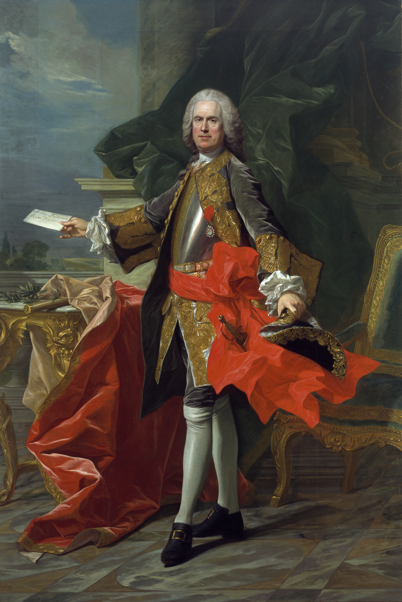 Portrait of Ricardo Wall y Devreux, Prime Minister of Spain under Ferdinand VI and Charles III.